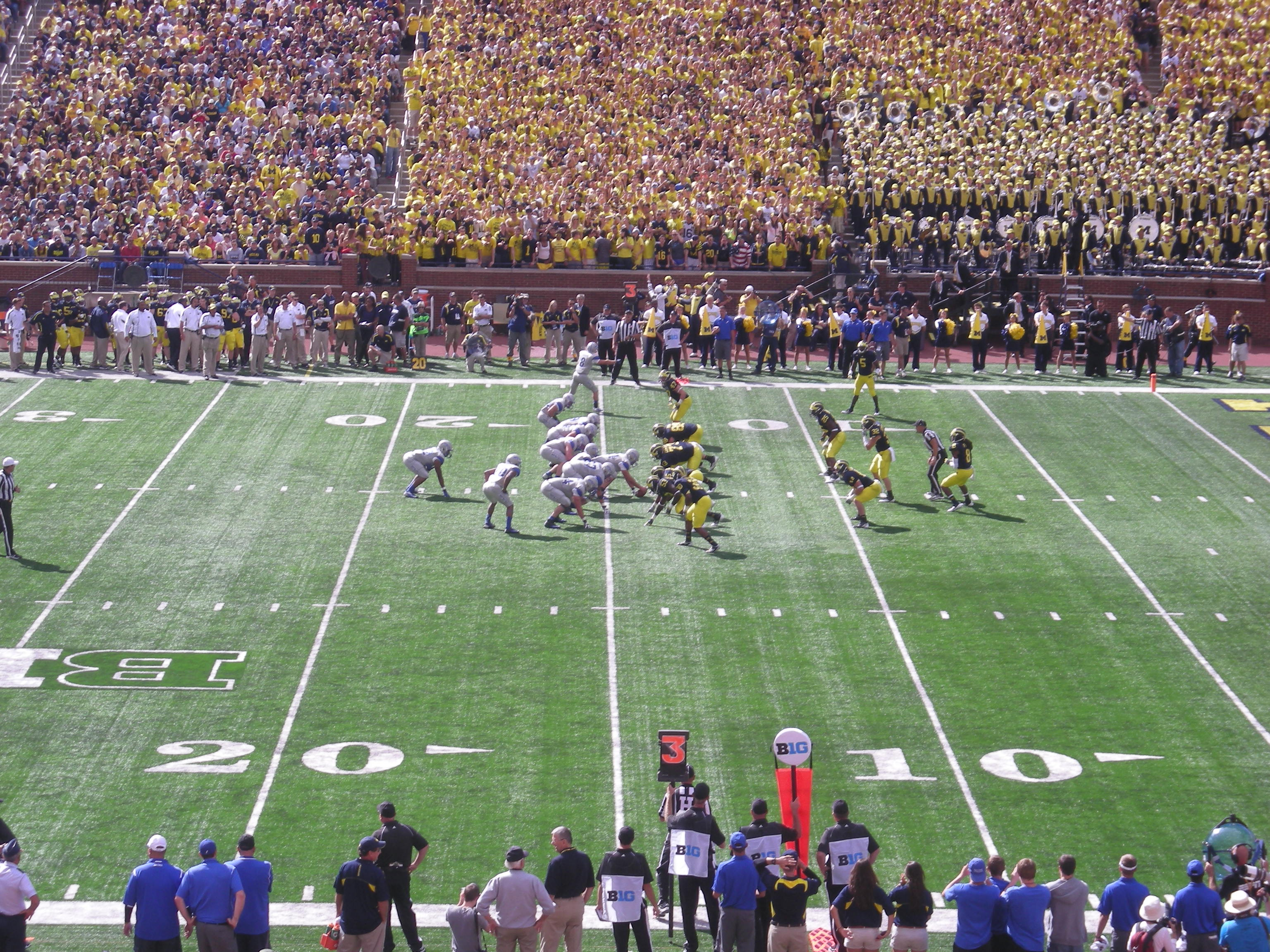 Air Force on offense during the Air Force Falcons vs. Michigan Wolverines football game at Michigan Stadium in Ann Arbor, Michigan (United States). Michigan won 31–25.